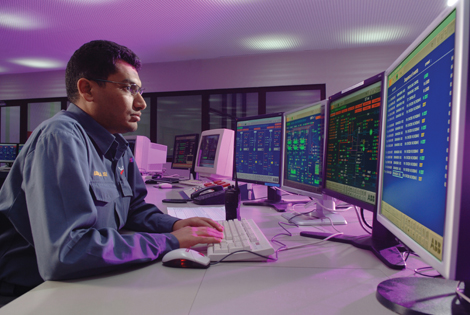 Aluminium Bahrain (Alba)